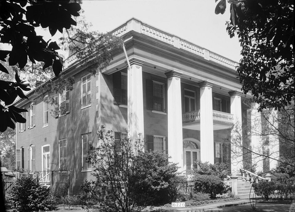 Alfred Battle Home (Battle-Friedman House), Greensboro Avenue, Tuscaloosa, Tuscaloosa County, AL. EXTERIOR (FRONT VIEW). HABS ALA,63-TUSLO,13-1.